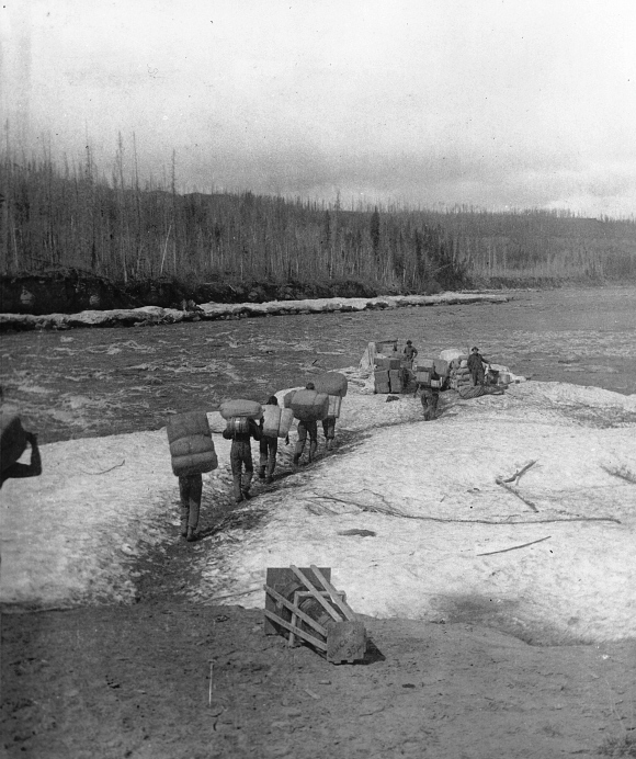 Photograph, Aboriginal people portaging goods, Slave River, NT, about 1900, C. W. Mathers, Silver salts on paper mounted on card - Gelatin silver process, 25 × 20 cm